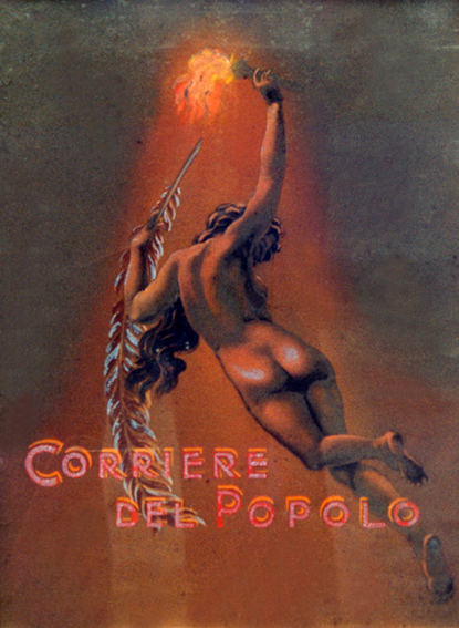 Poster by Orlandi Orlando.